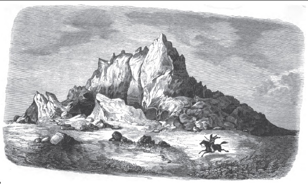 Besh barmak mountain from Khidr Zinda karavan saray